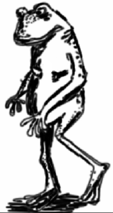 Artist's rendition of the Loveland Frog